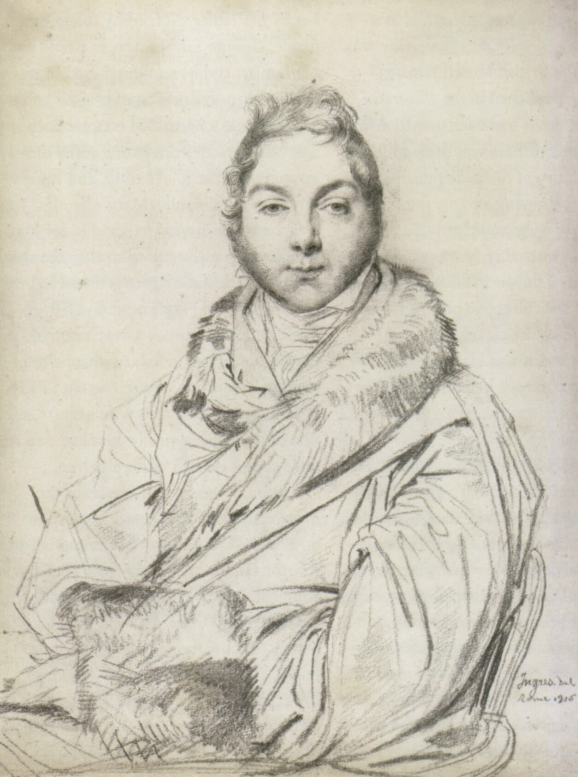 Alexander Baillie (1777-1855), drawn by Ingres, 1816.